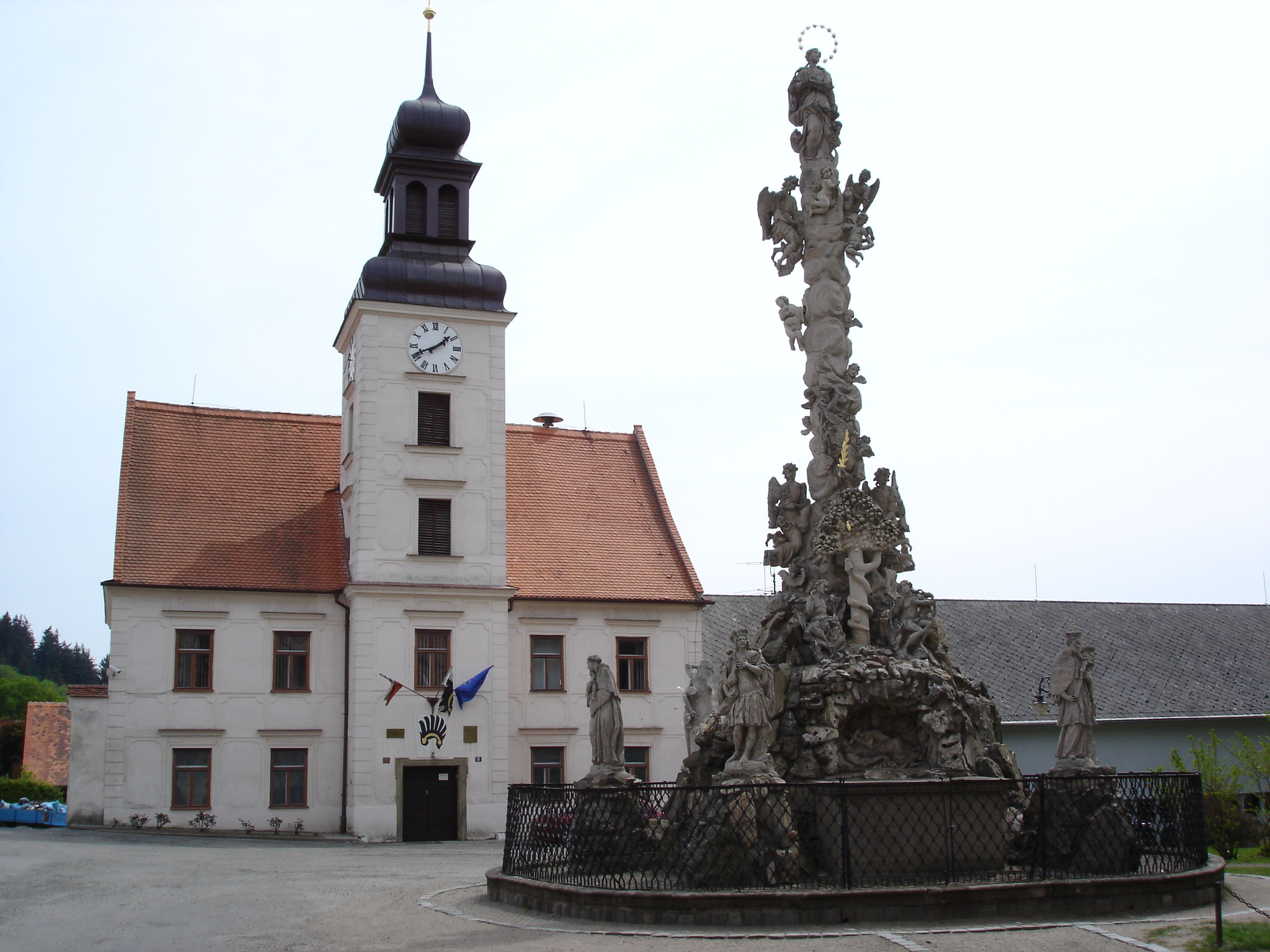 Town hall of Lomnice